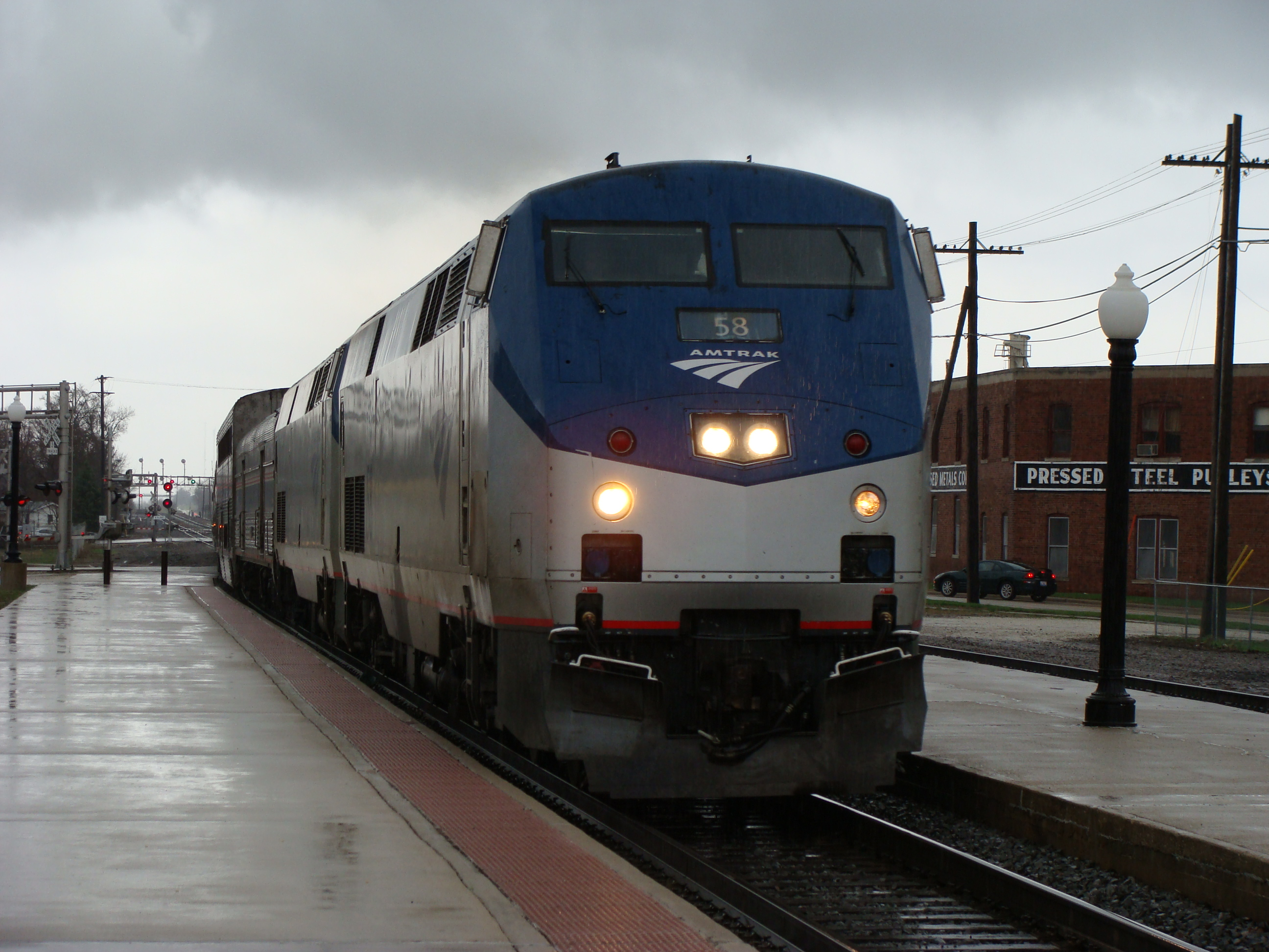 The Amtrak California Zephyr train arrives at Galesburg, Illinois.